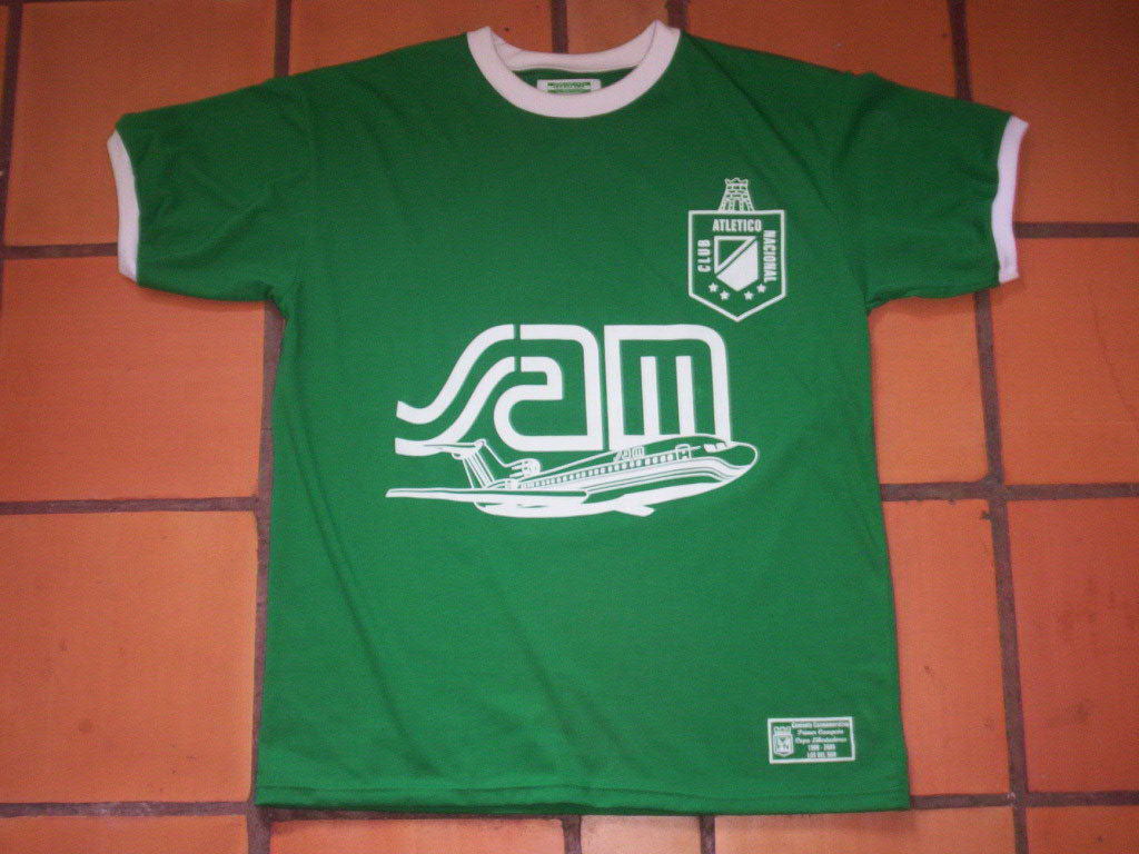 Copa Libertadores replica shirt 1989